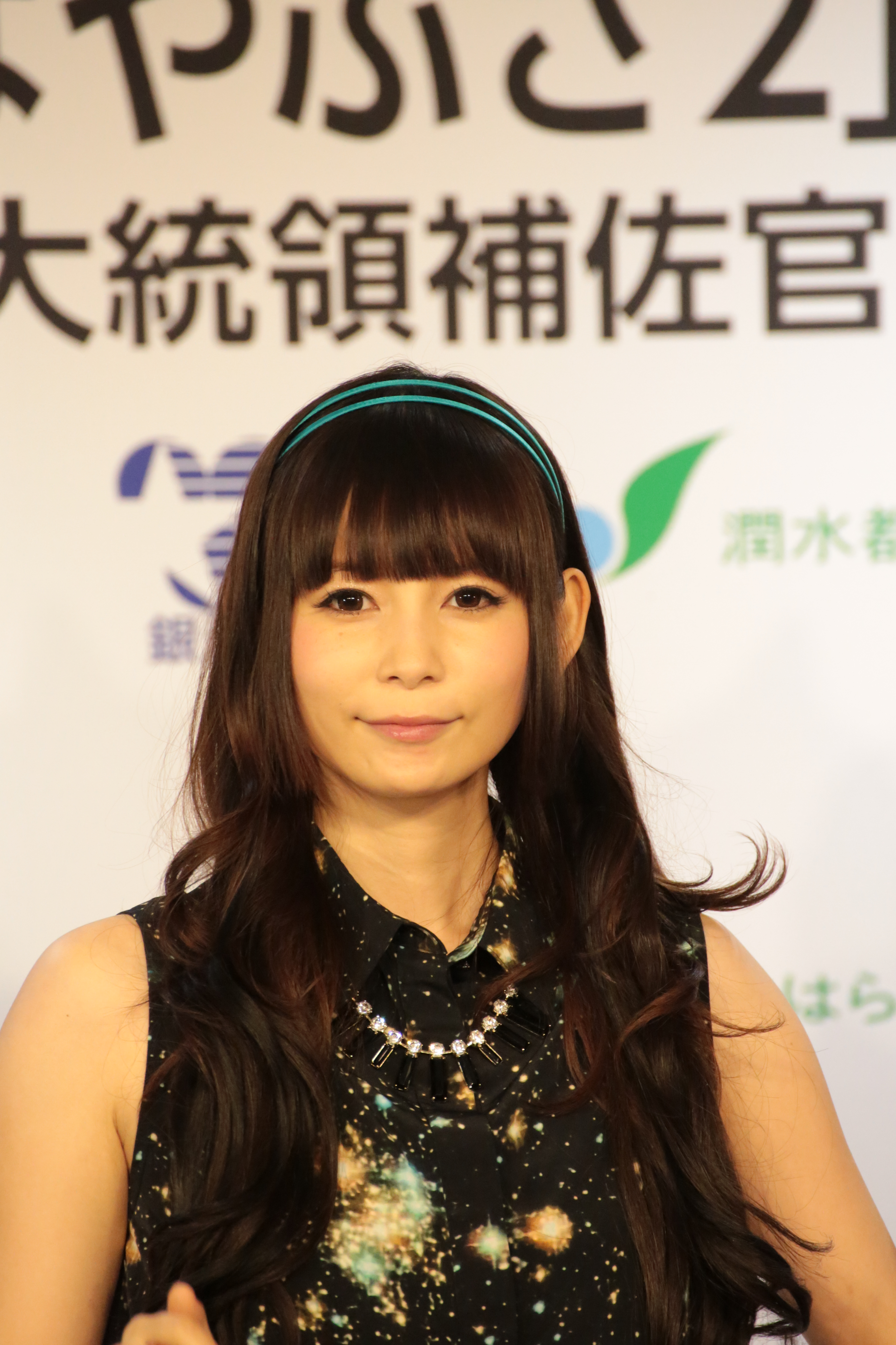 by Norio NAKAYAMA